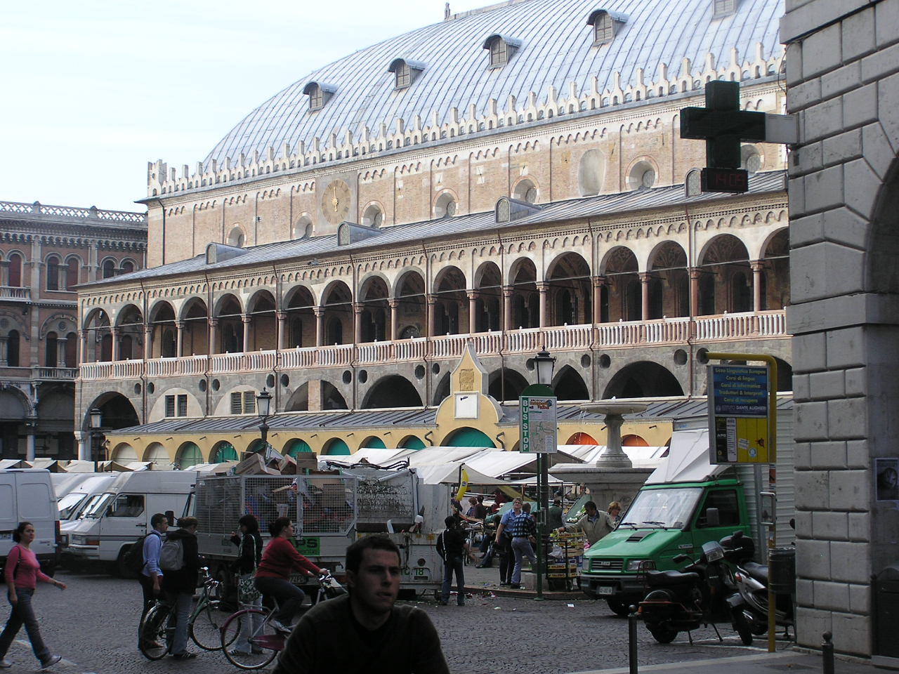 Padova, Veneto, Italia